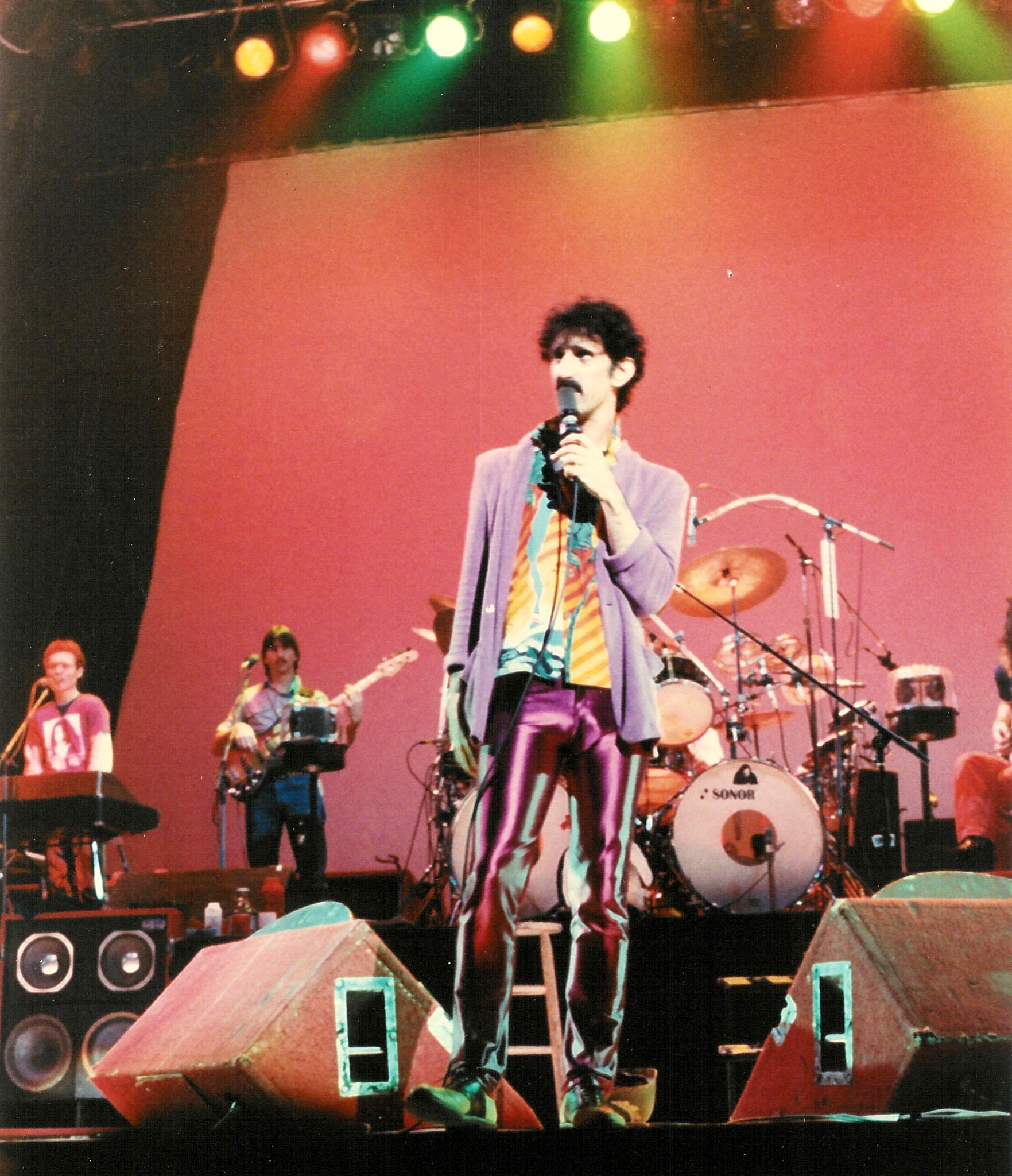 Zappa and band. Bob Harris, Yamaha CS-80 synthesizer and vocals, Arthur Barrow, bass. Memorial Auditorium, Buffalo, NY. Oct 25, 1980